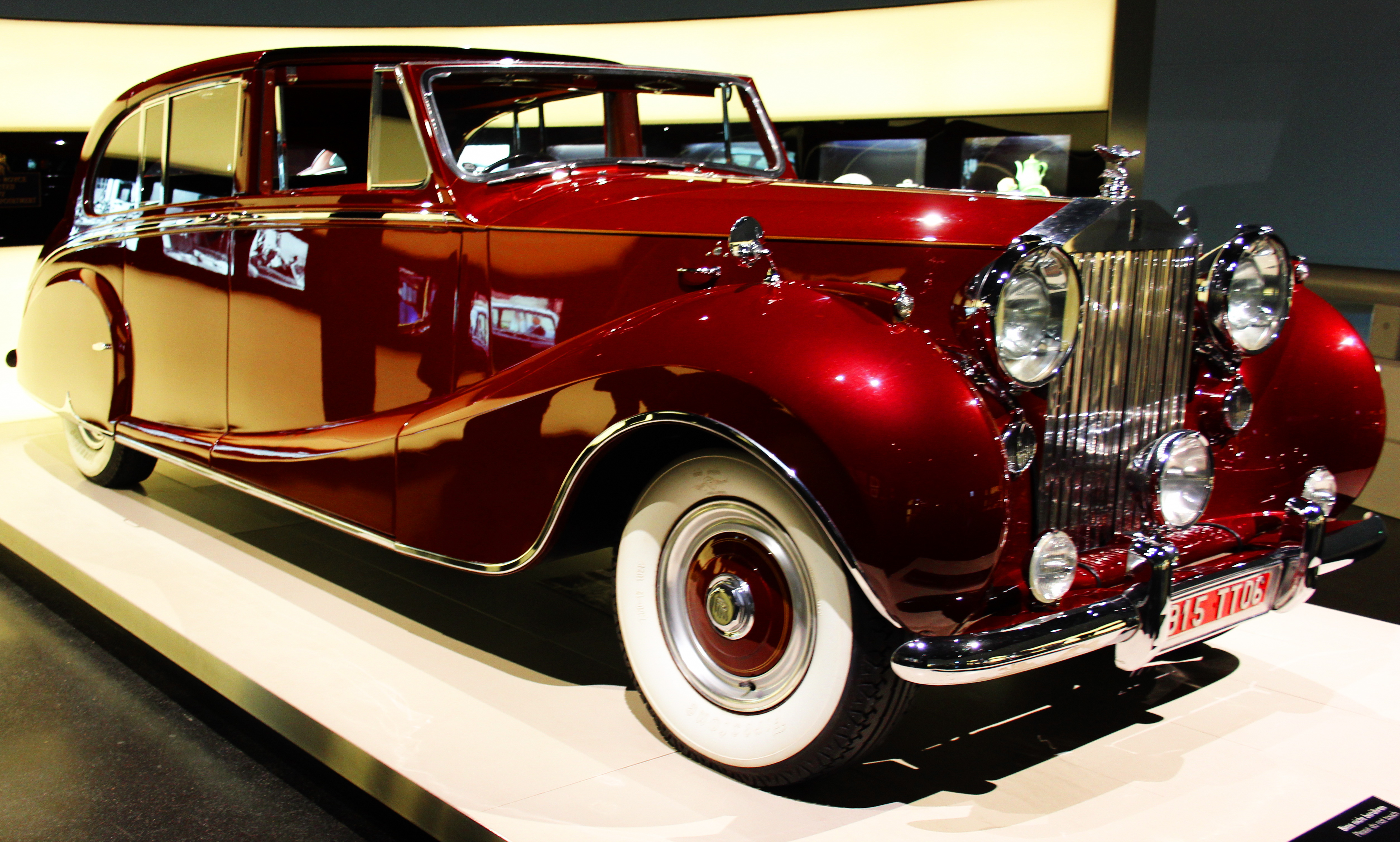 1952 Rolls-Royce Phantom IV made for the Aga Khan III (chassis 4AF20)